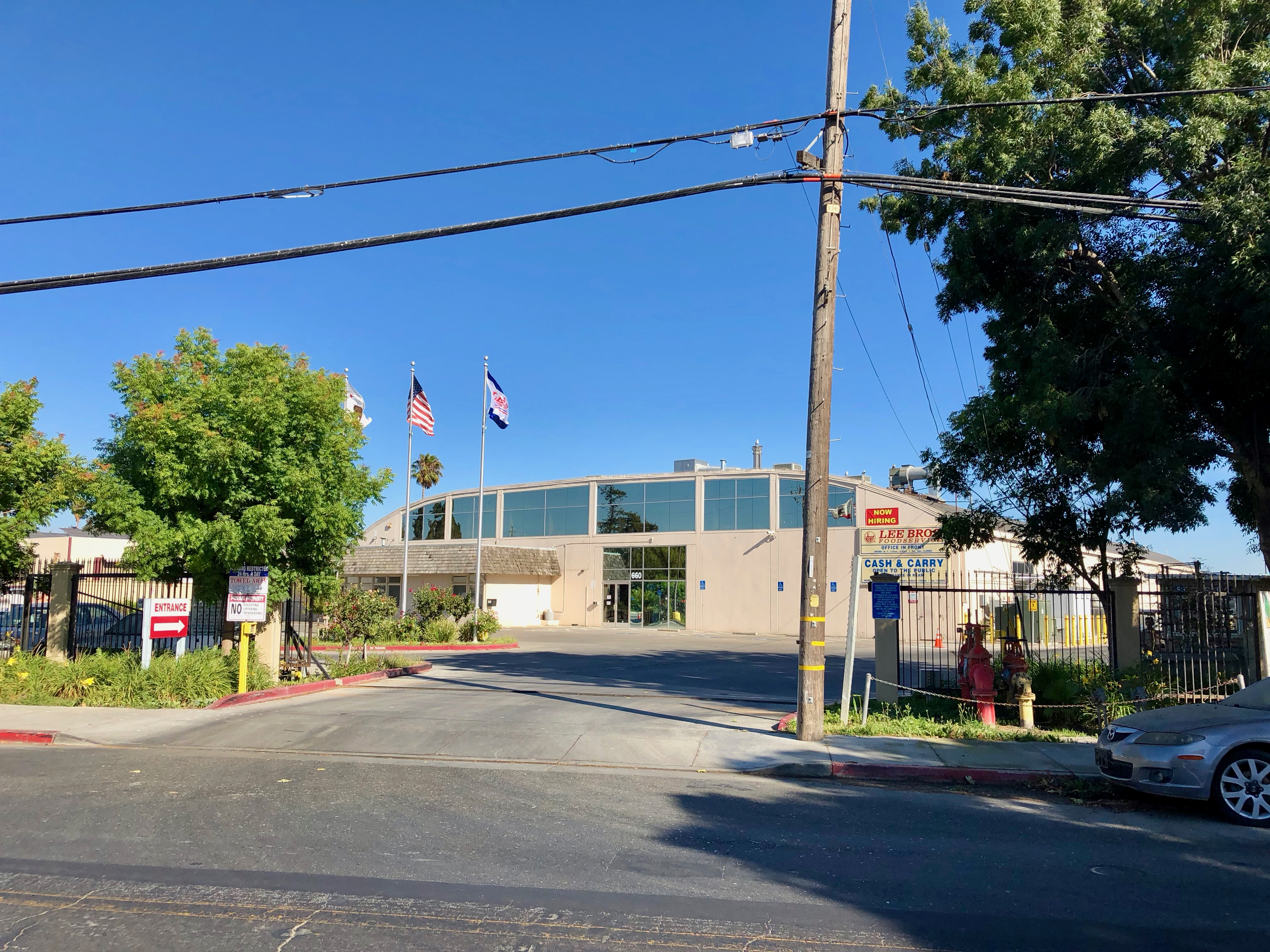 Headquarters of the food truck company Lee Bros. Foodservice and the bakery chain Lee's Sandwiches at 660 East Gish Road in San Jose, California, United States. A Lee's Sandwiches flag flies to the right of the American flag.